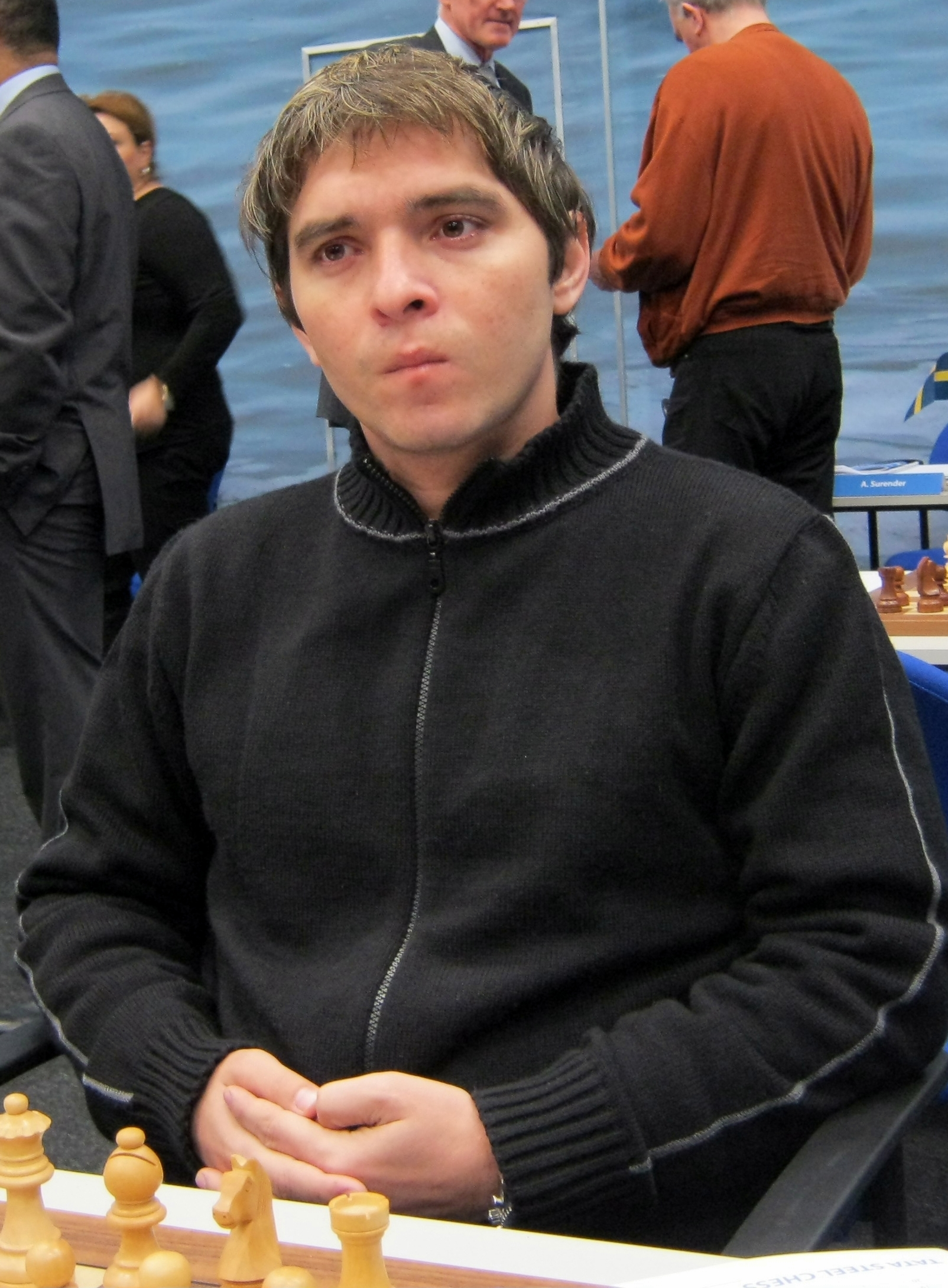 Lázaro Bruzón, chess grandmaster from Cuba